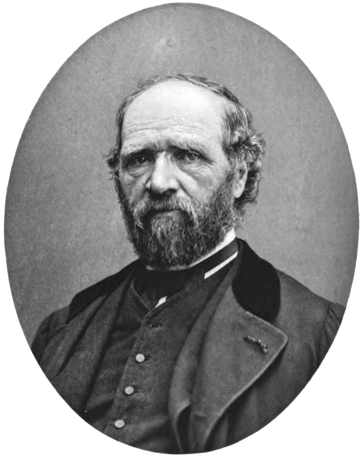 Louis-Alphonse Poitevin (1819–1882), French photographer